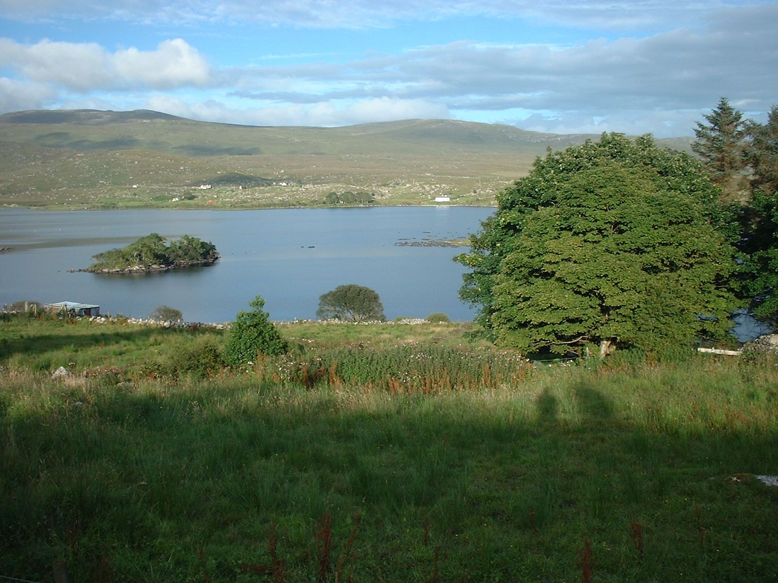 Loughanure is a lake, and a village named after it, in the Rosses, County Donegal, Ireland